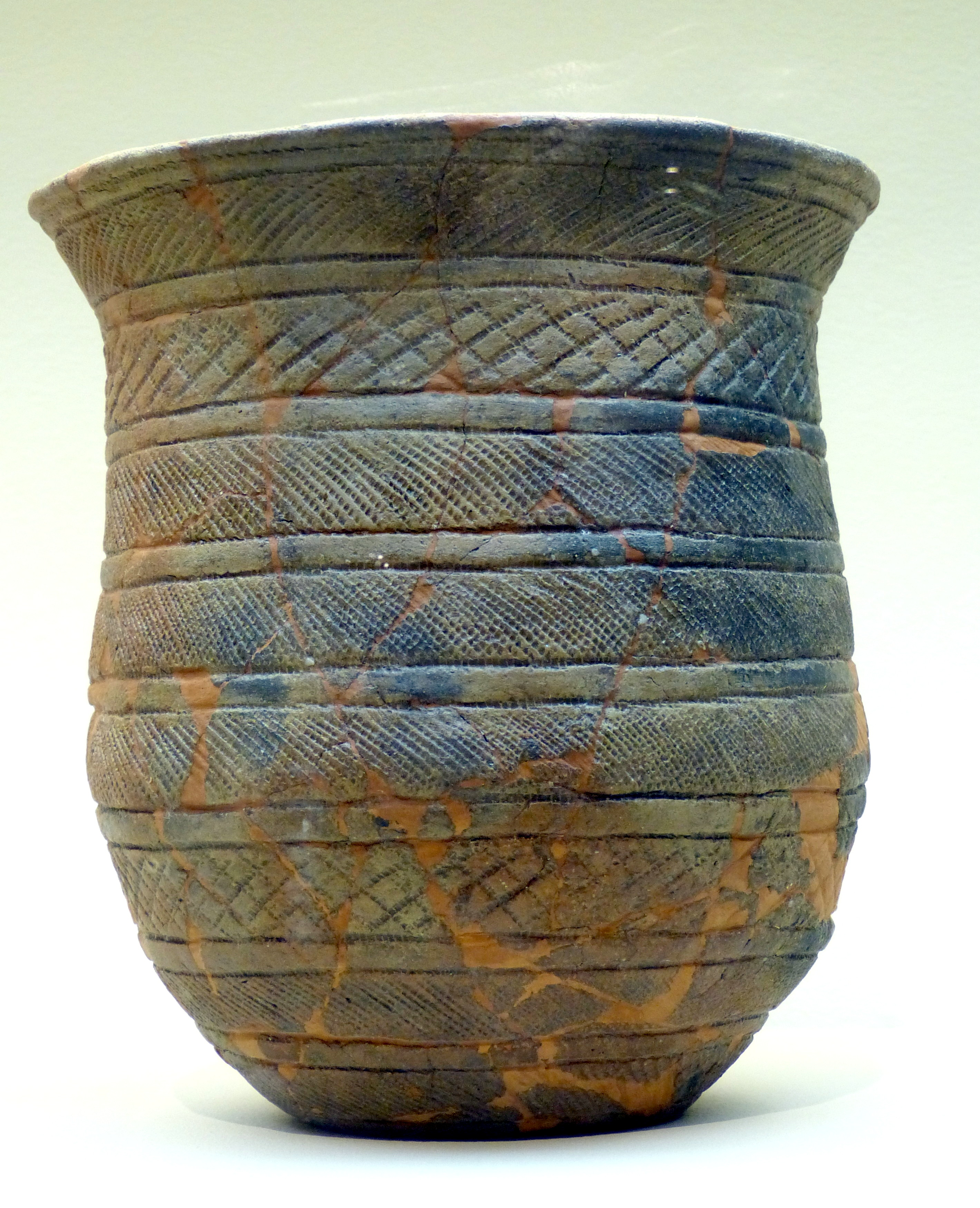 Straubing ( Lower Bavaria ). Gäubodenmuseum: Bell beaker of the Bell beaker culture, from Atting.